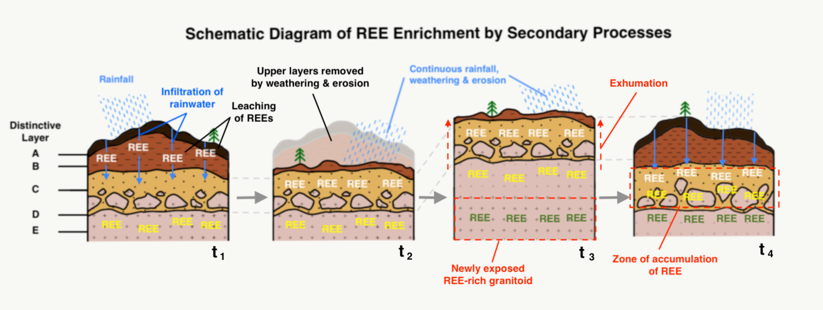 Schematic diagram of REE secondary enrichment